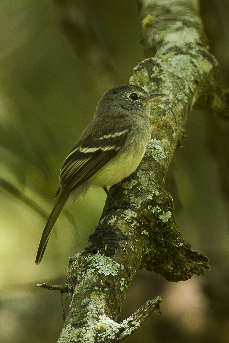 Gray-breasted Flycatcher - South Ecuador_S4E9465